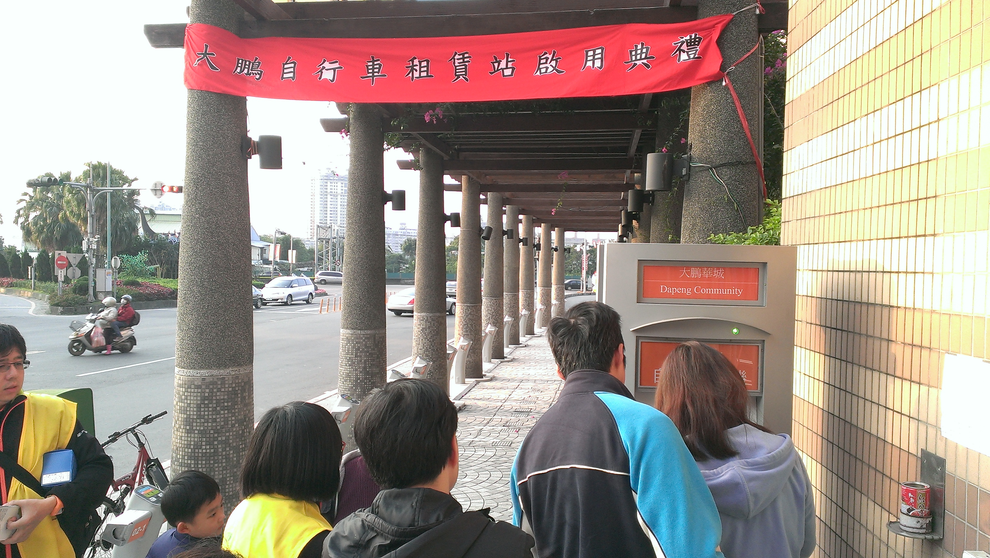 Dapeng Community rental station of YouBike in New Taipei City